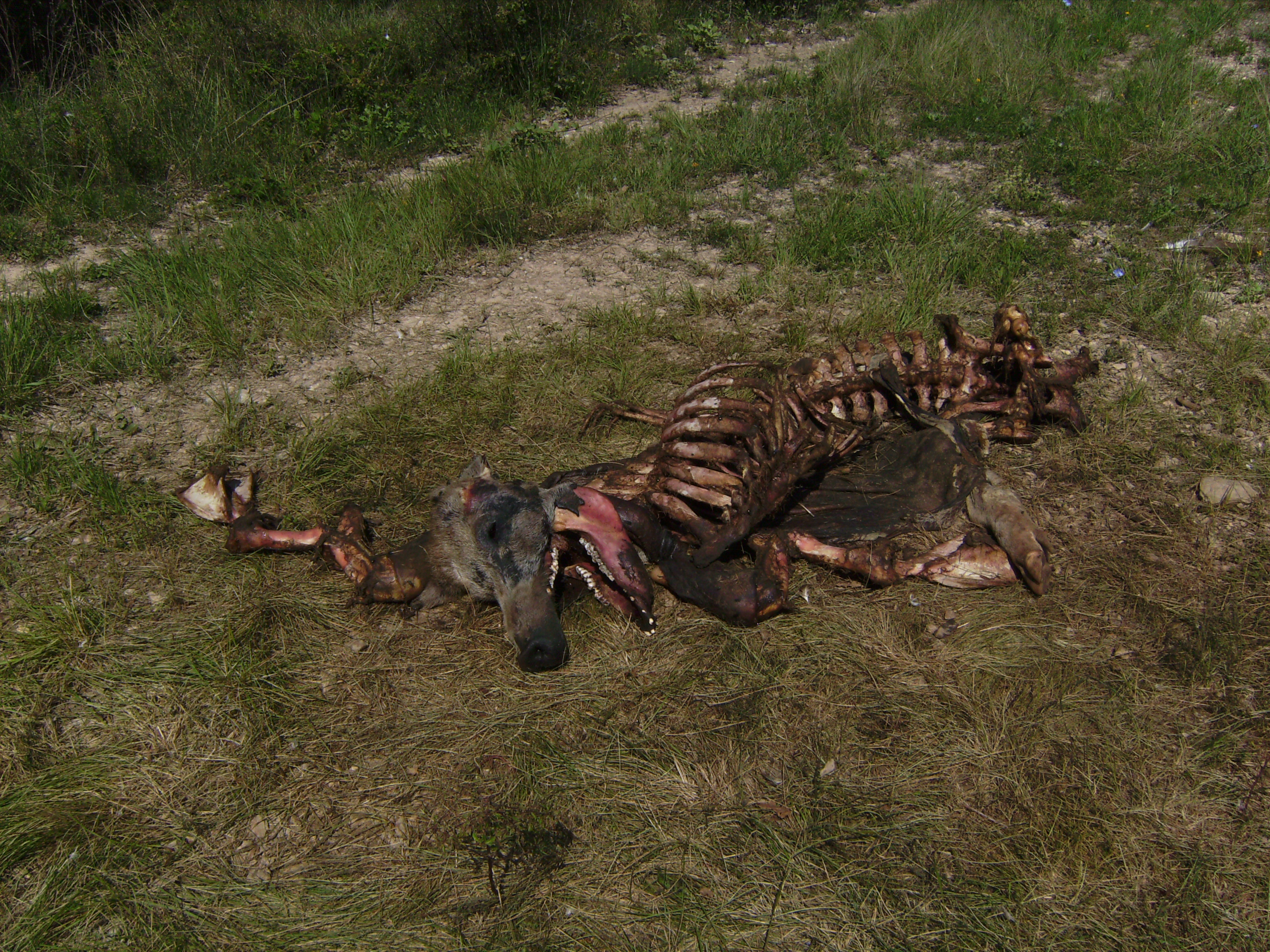 Carcass of a dead wild boar (Sus scrofa), Castelltallat, Catalonia